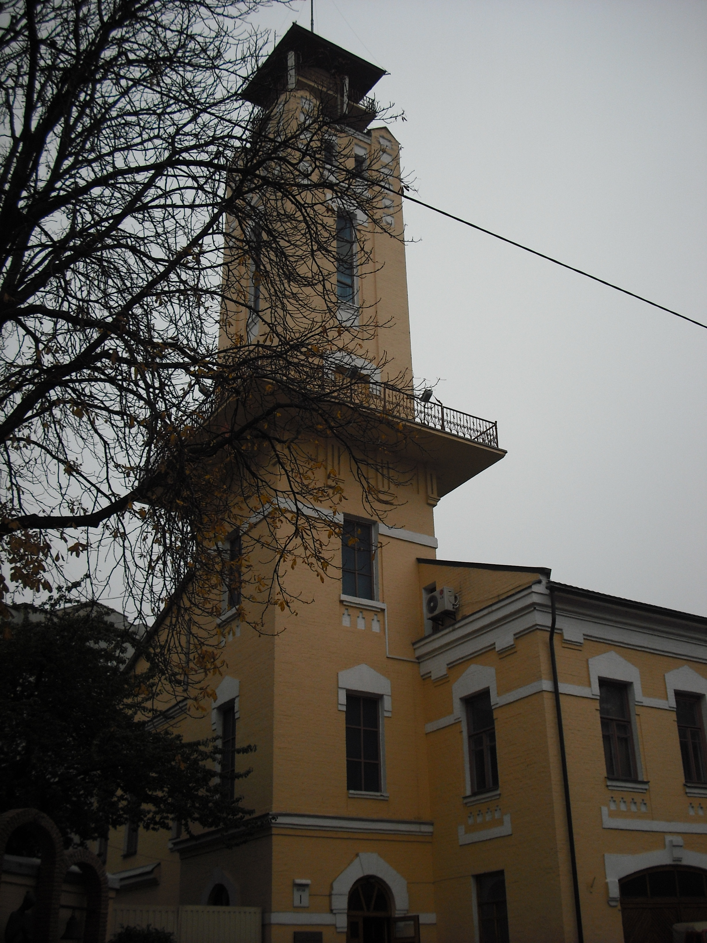 Kiev - Ukrainian National Chernobyl Museum